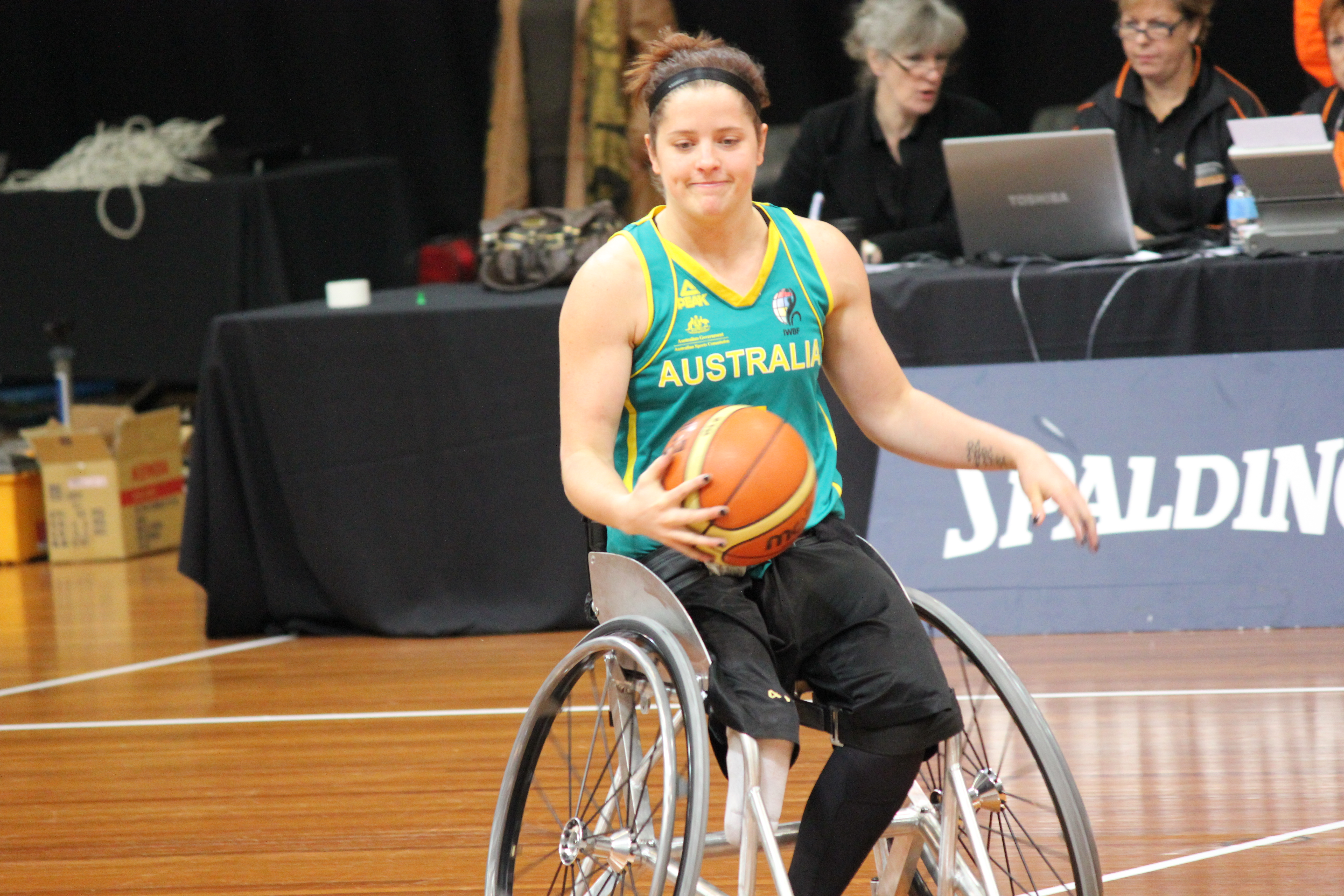 Aussie Gilder player Cobi Crispin in July 2012 in Sydney.